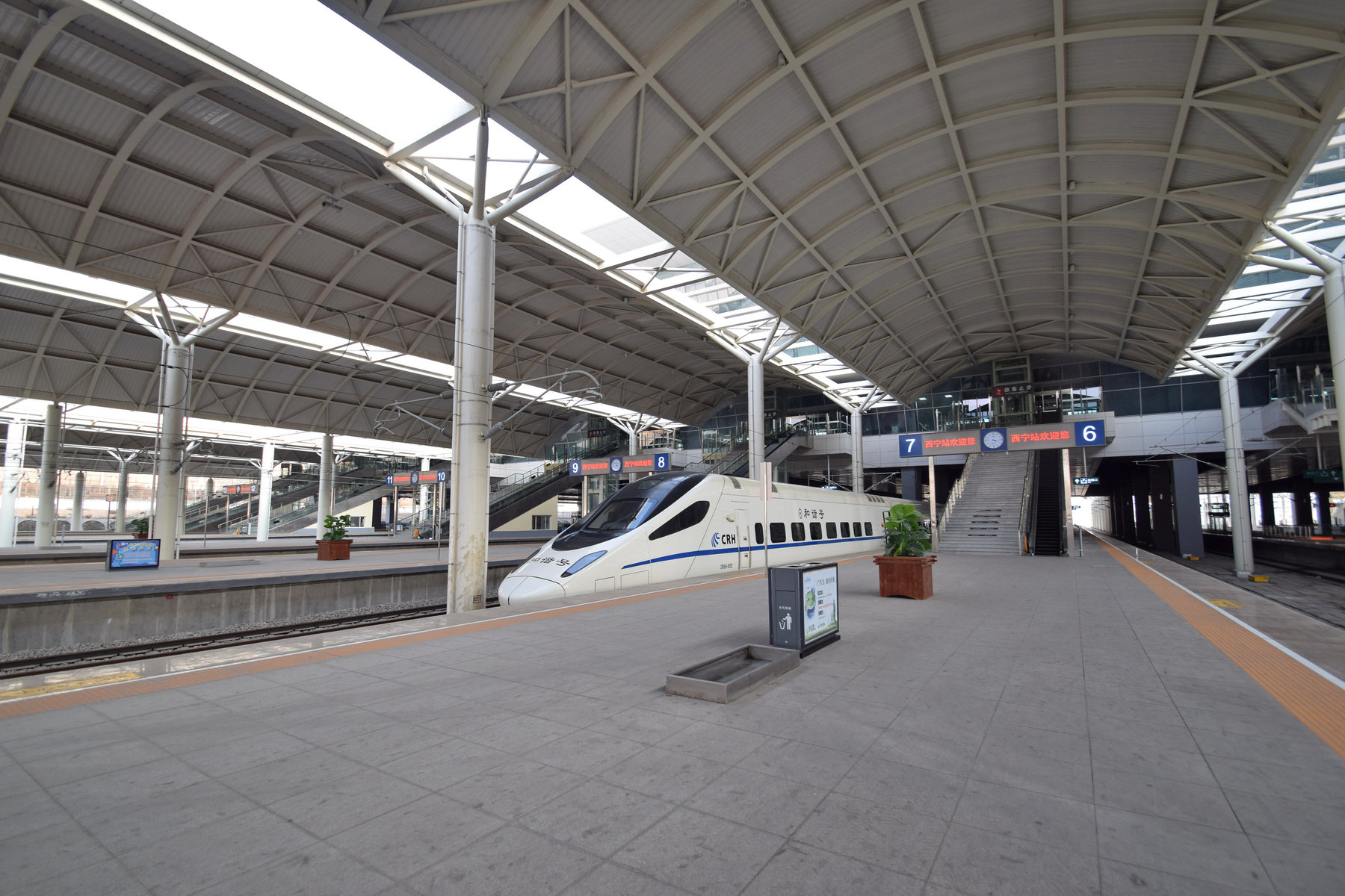 Platforms of Xining Railway Station